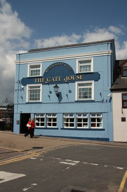 The Gatehouse Restaurant & Inn by Monnow Bridge